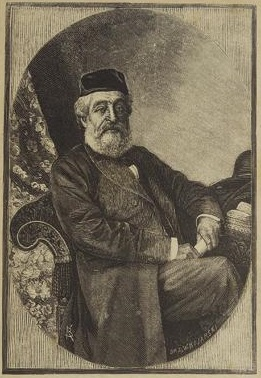 Louis Loewe (1809–1889), Jewish British orientalist, Moses Montefiore's secretary. .English inscription: "Dr. Rev. Louis Loewe"